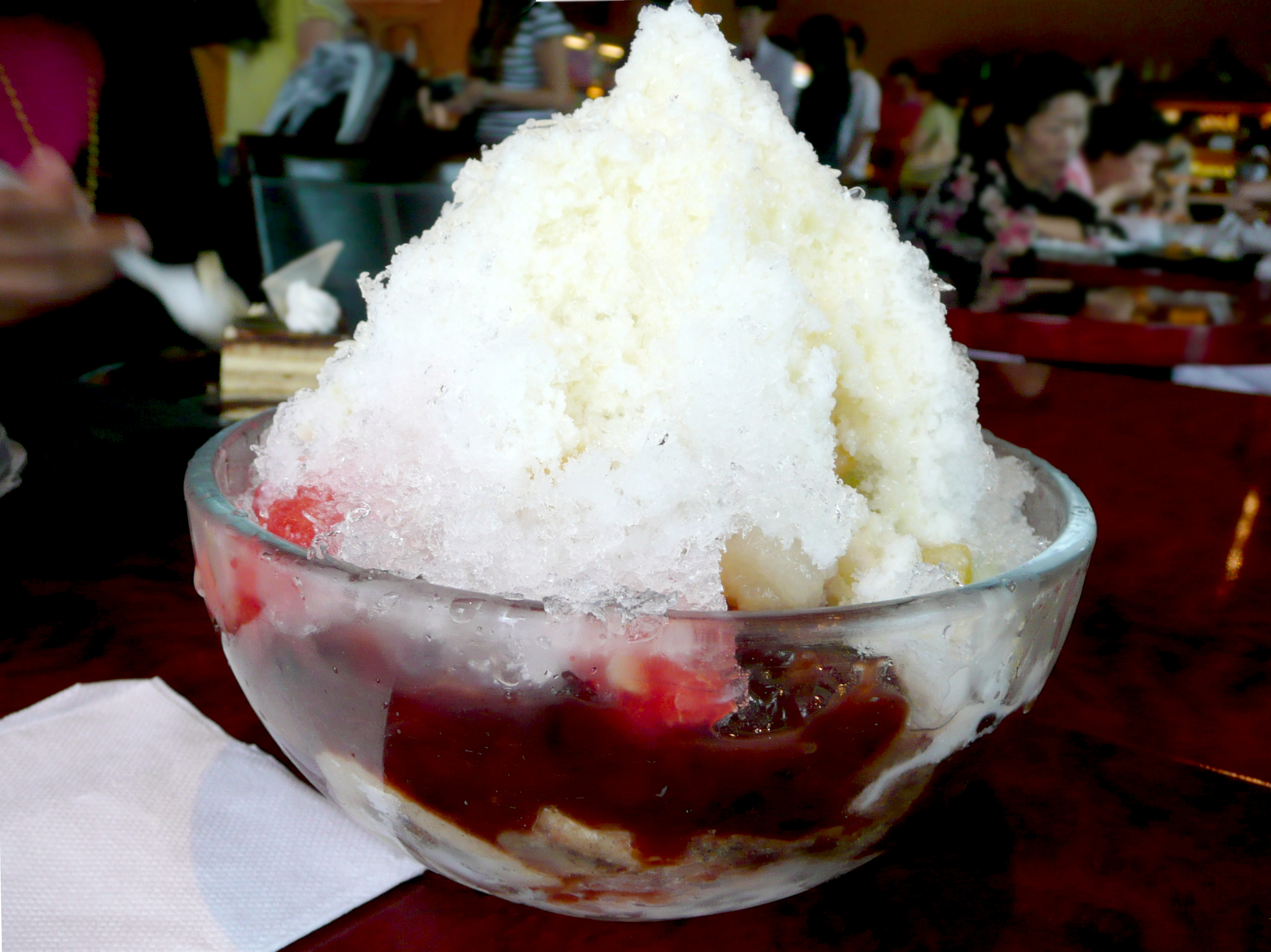 Patbingsu being served at a Shilla Bakery in Annandale, VA, USA. It is a Korean shaved ice dessert made with red bean paste, and fruits.